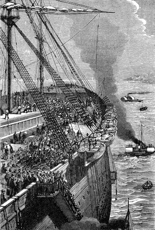 An illustration from Jules Verne's novel "A Floating City" (1869) drawn by Jules Férat.